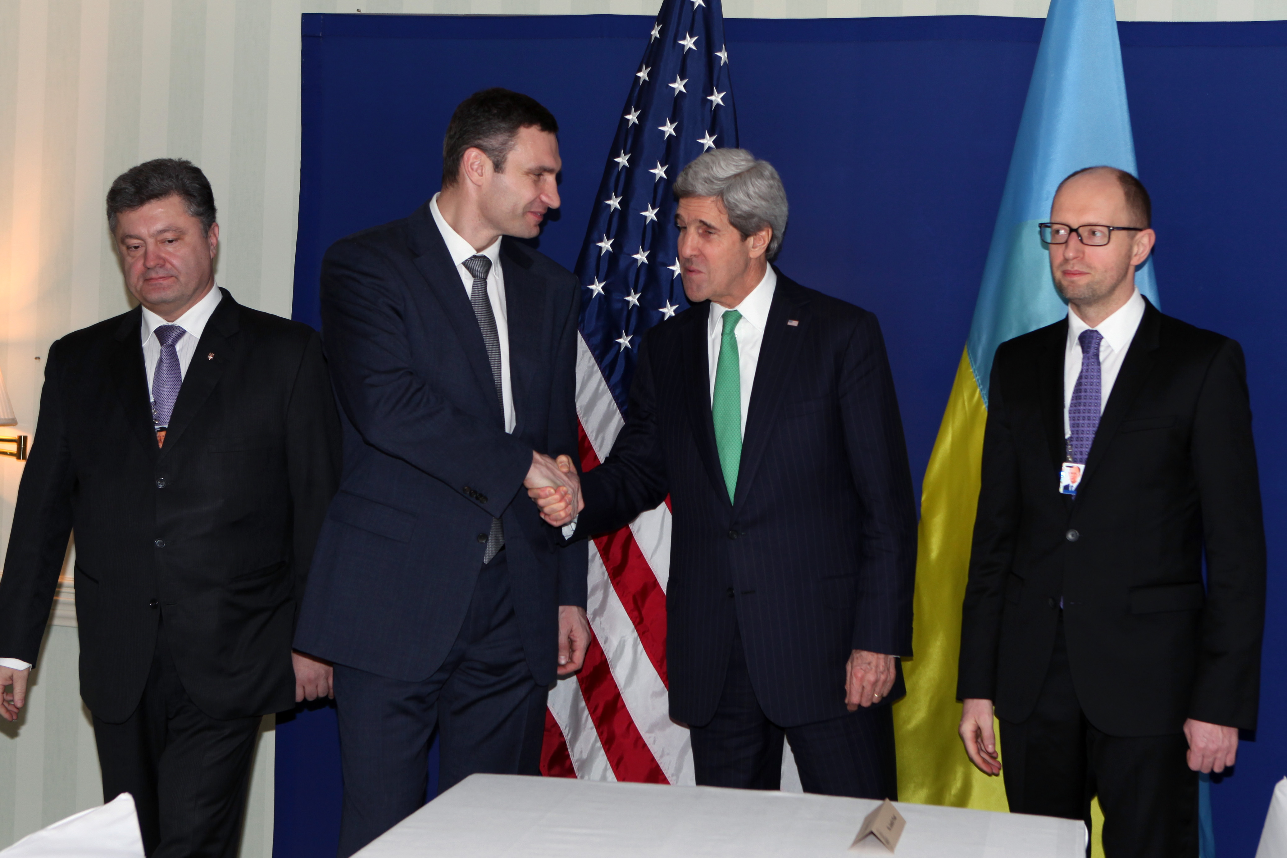 U.S. Secretary of State meets with Ukrainian opposition leaders.